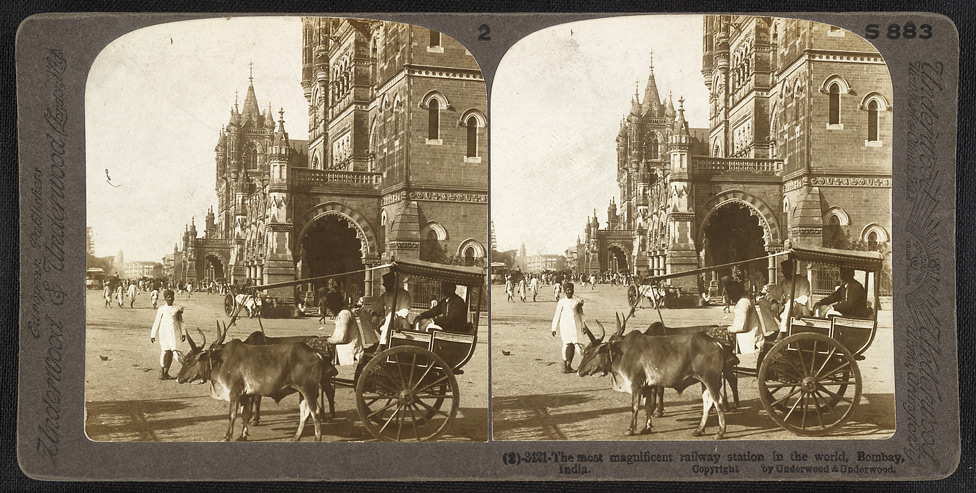 "The most magnificent railway station in the world." 1903. Stereographic image of the Victoria Terminus, Bombay completed in 1888.